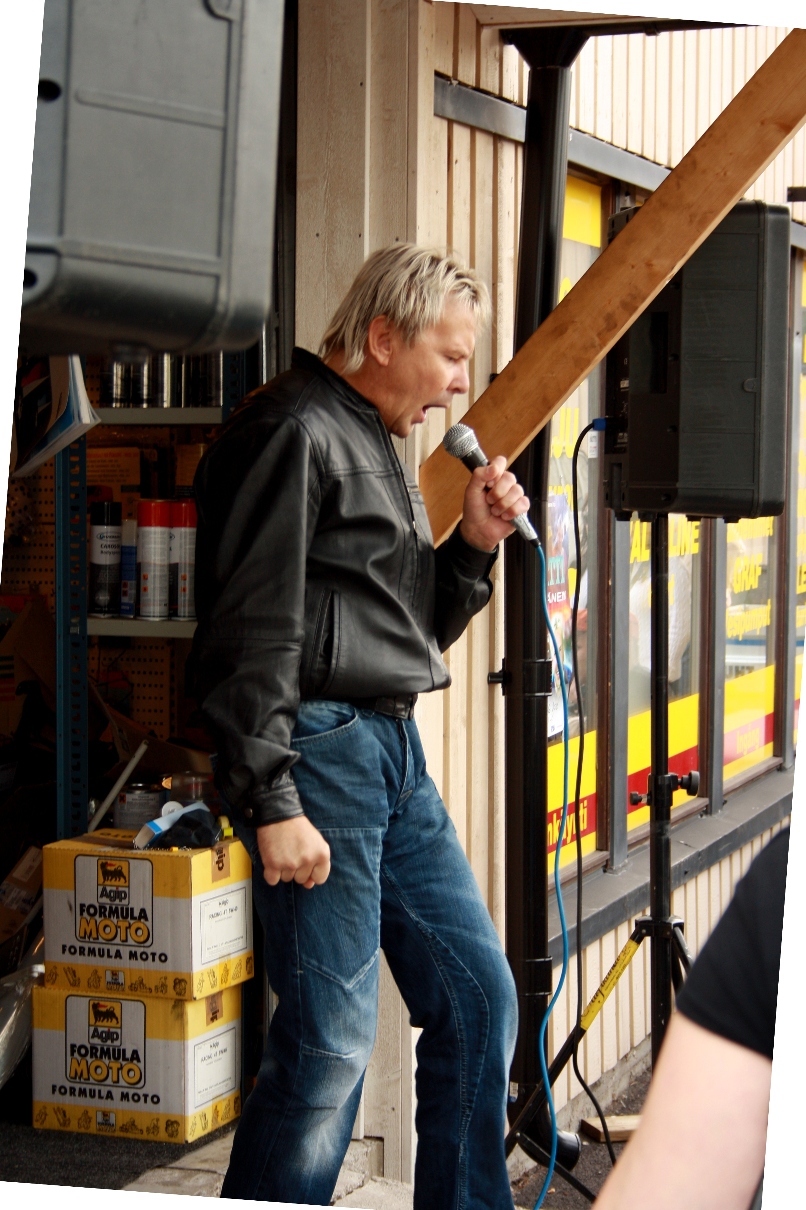 Matti Nykänen singing and joking with his guitarist during a performance held at a car repair parts shop in Kirkkonummi, on the 19th of June 2010.